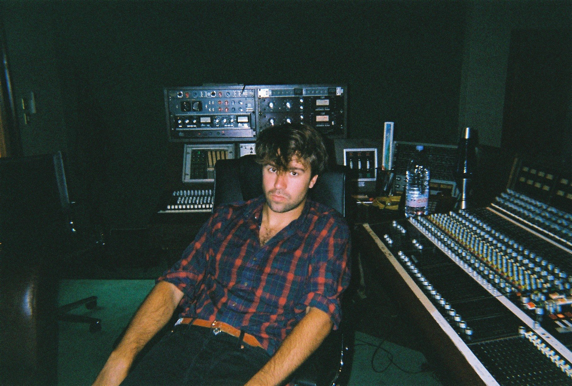 A photograph of Justin Hayward-Young at RAK Studios in London.